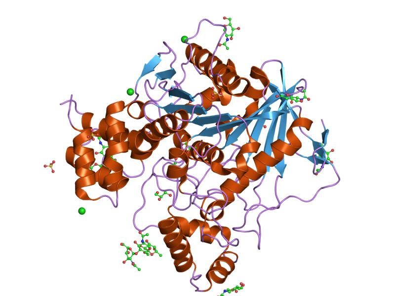 Cartoon representation of the molecular structure of protein registered with 1xlv code.